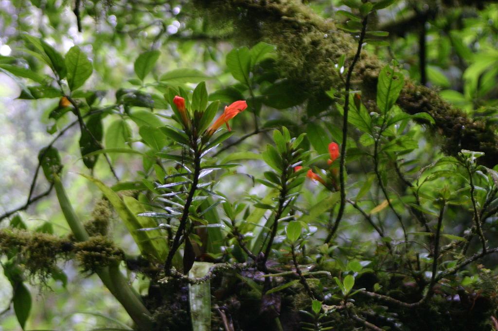 Columnea cf. glabra in Monteverde, Costa Rica. Author: Cody Hinchliff, 2004.